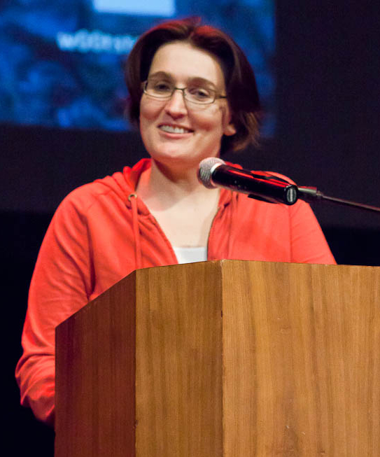 Amy Berg speaking at W00tstock 3.0 in Downtown San Diego, CA, U.S.